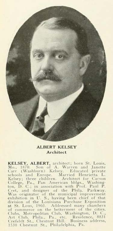 "Albert Kelsey, Architect."